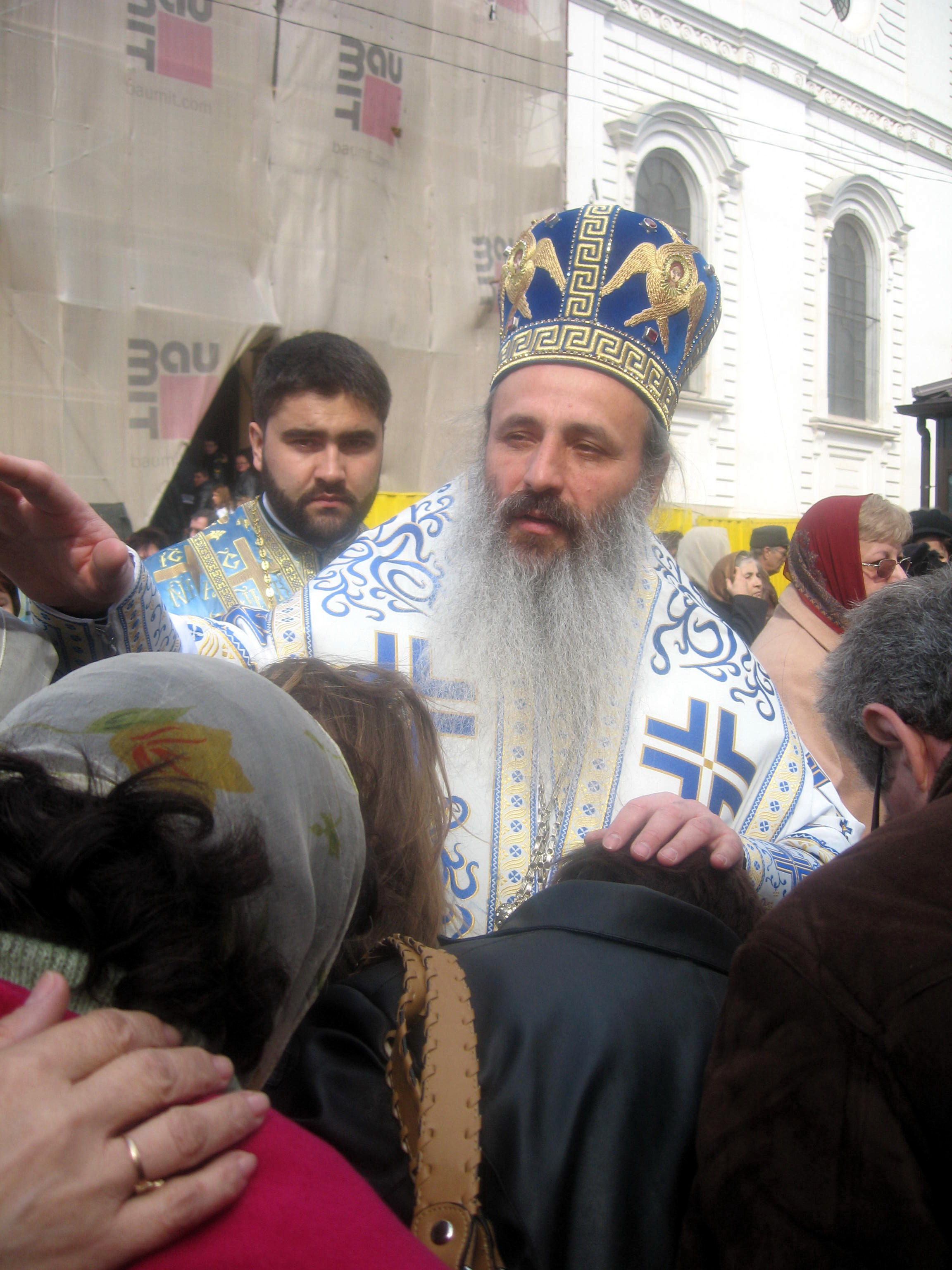 Romanian Metropolitan Teofan Savu of Moldavia and Bukovina